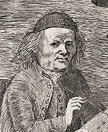 Self portrait of swedish painter Pehr Hörberg (cropped) from his auto biography book "Målaren Pehr Hörbergs Lefwernes-Beskrifning. Författad af Honom sjelf" published 1817